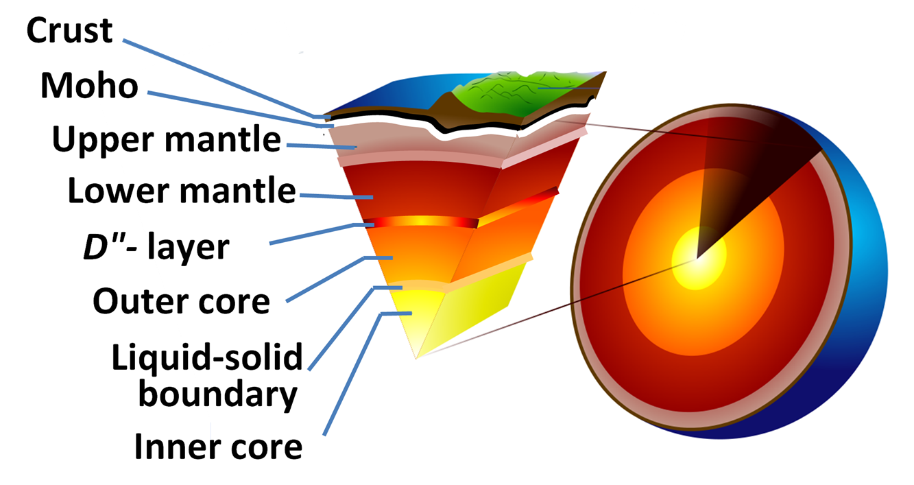 Earth and atmosphere cutaway illustration